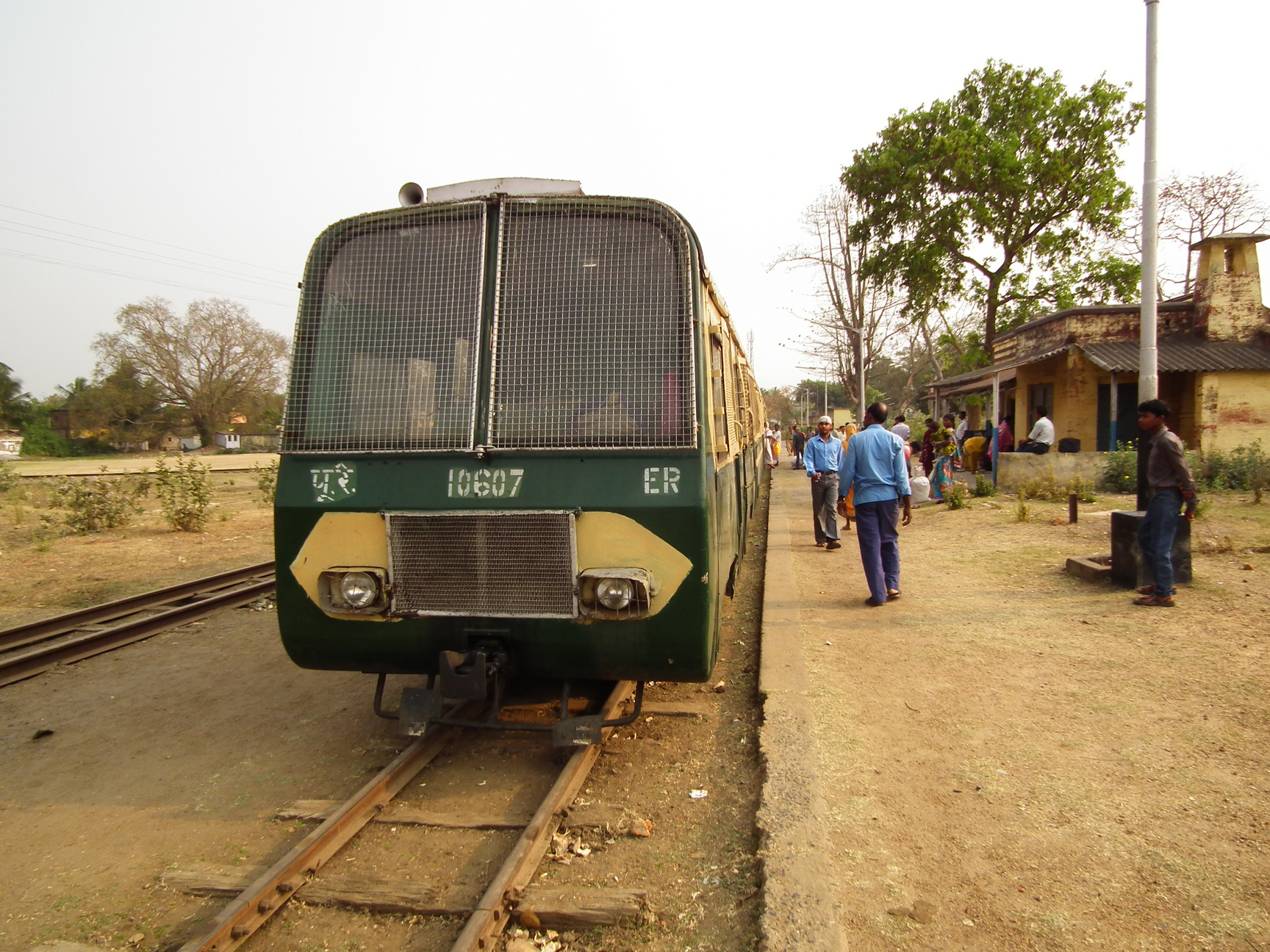 Ahmedpur -Katwa NG rail